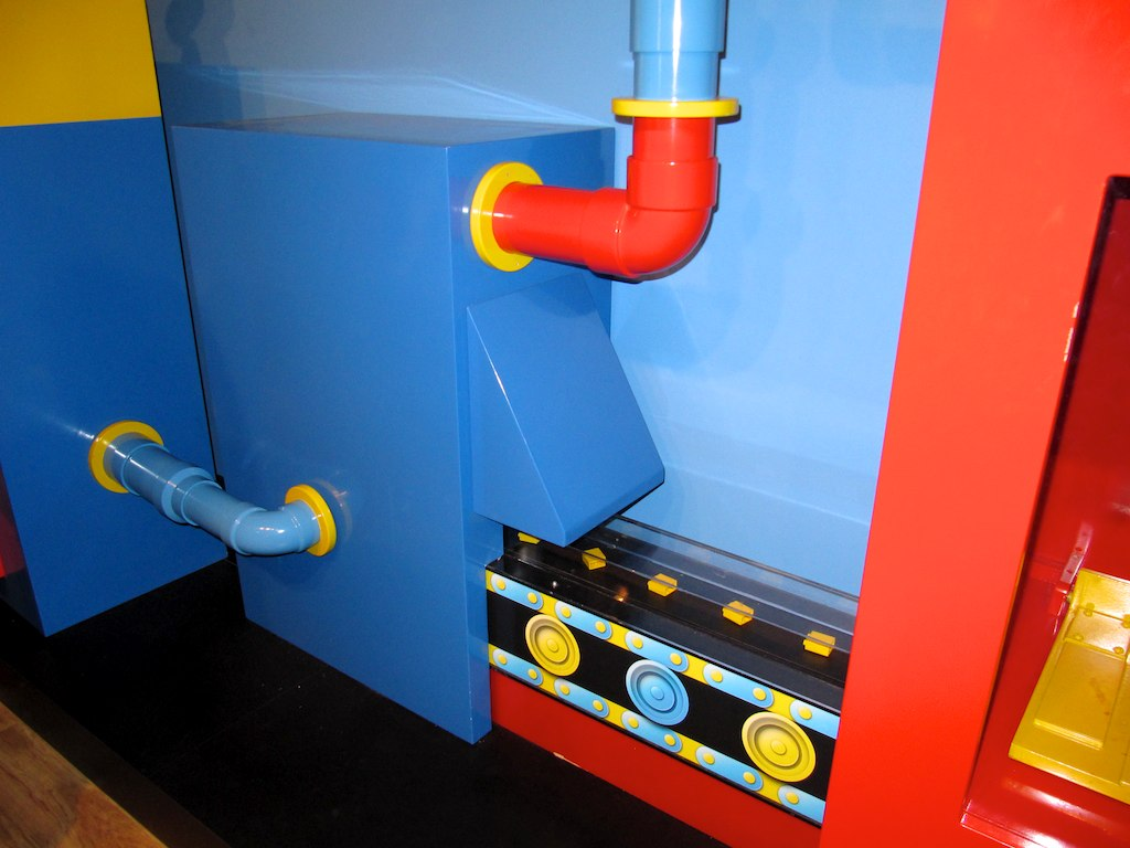 Lego Factory at Legoland Florida